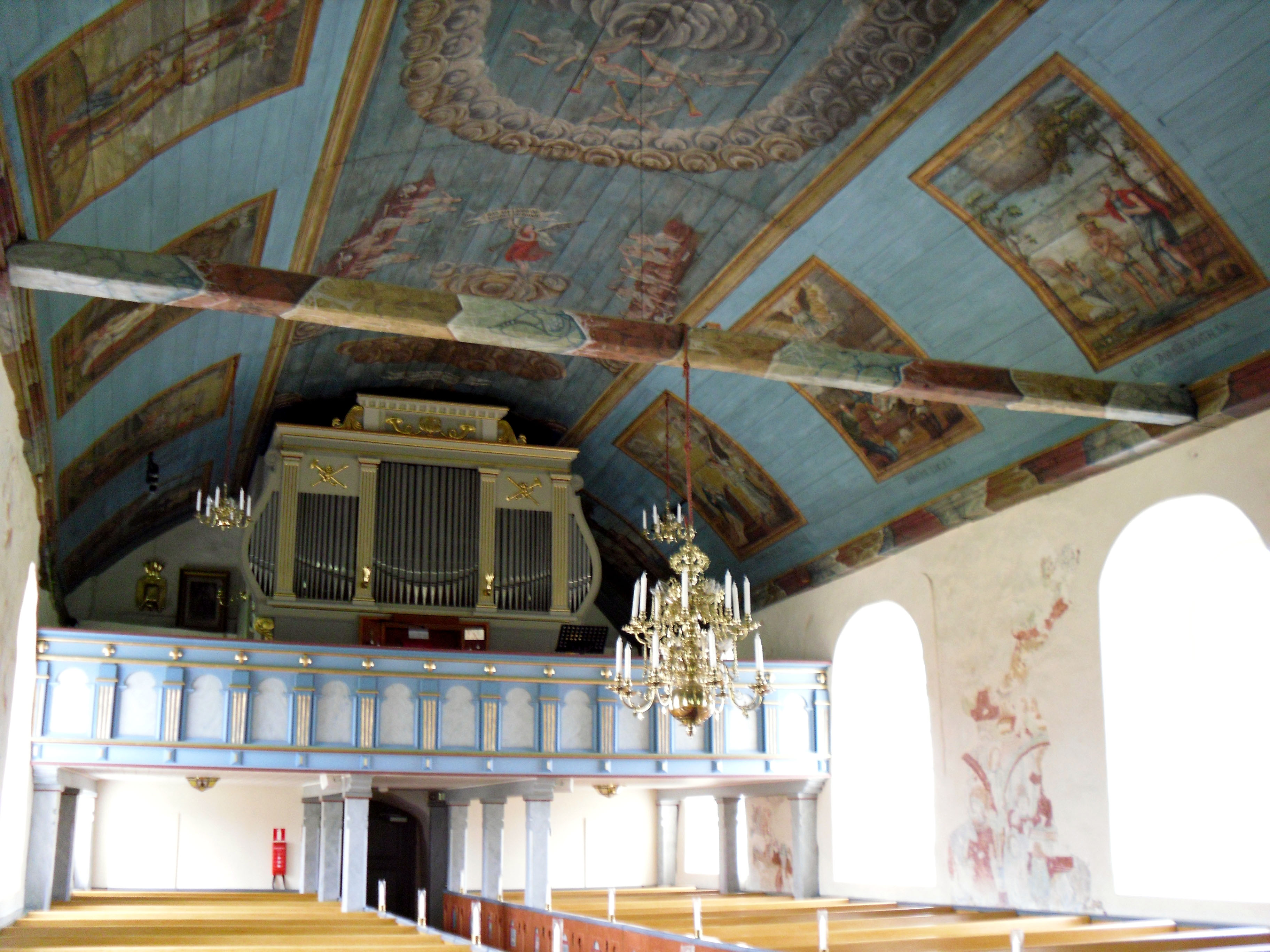 Landa Church, Halland, Sweden